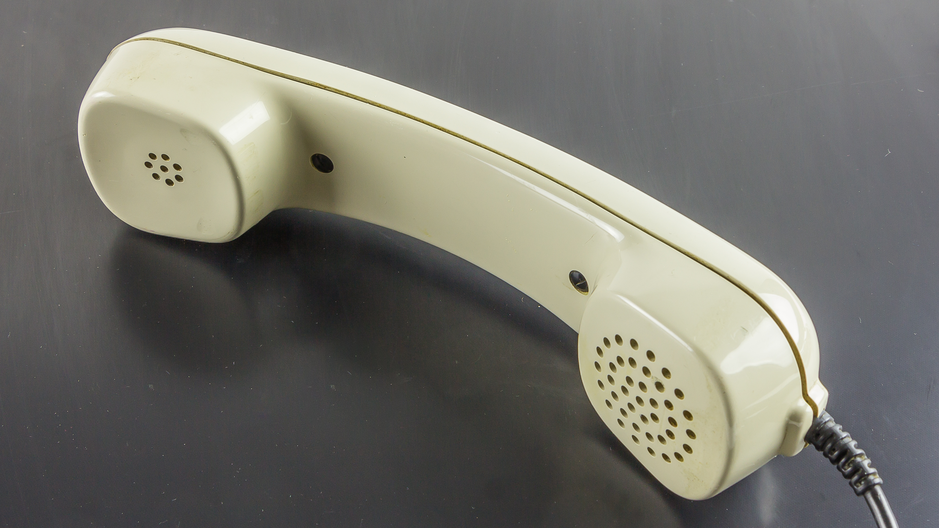 FeAp 92-1a - handset